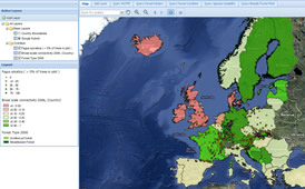 L'atlas interactif (Map Viewer) de l'EFDAC est une application web de cartographie personnalisée qui permet de visualiser, de parcourir et d'interroger les cartes et les jeux de données géographiques dérivées élaborées par l'équipe EFDAC du Centre commun de recherche.